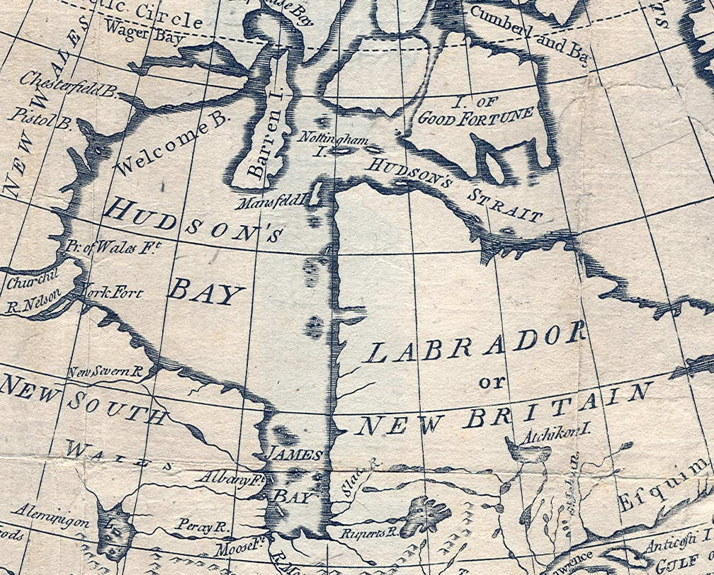 Detail from a 1779 map of eastern North America depicting Hudson Bay and the outposts of the Hudson Bay Company located there.